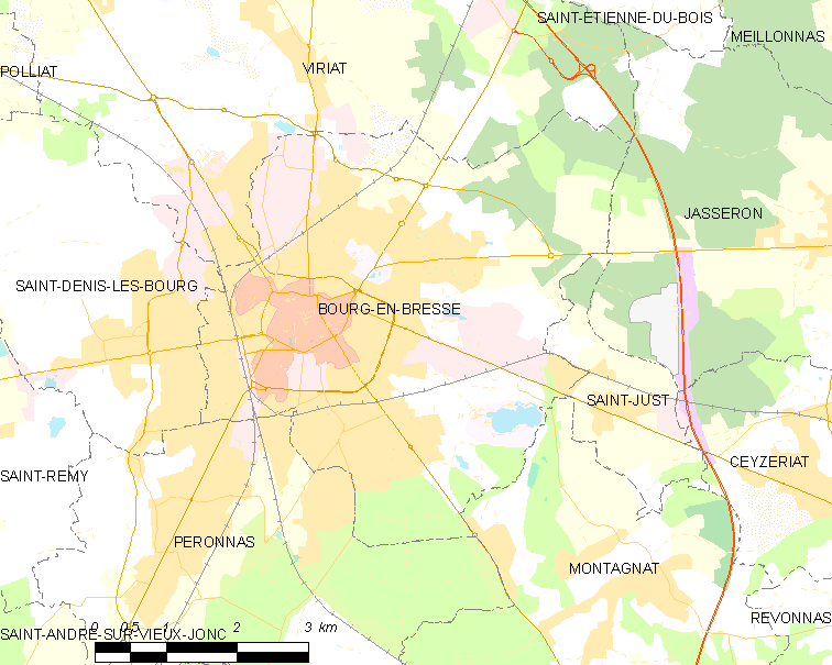 Map of French commune: Bourg-en-Bresse Map commune FR insee code 01053.png